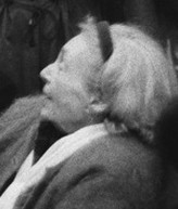 LA PLUIE D'ÉTÉ Written by Marguerite Duras Directed by Éric Vigner After the performance at the Stella in Lambézellec 1993 Photography by Alain Fonteray Showing: Marguerite Duras